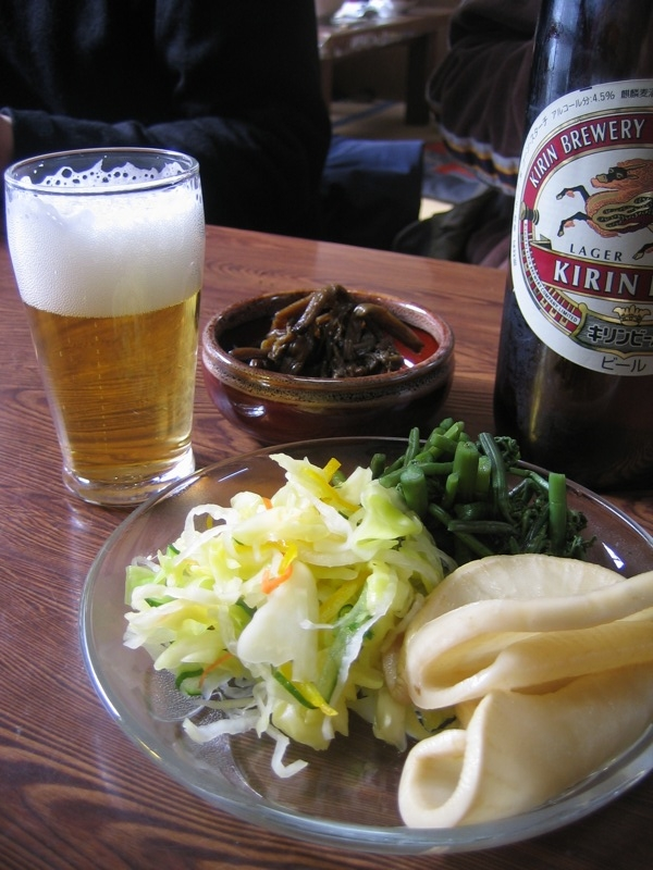 @nagai (cropped from flickr (rotated))japanese pickles & beer